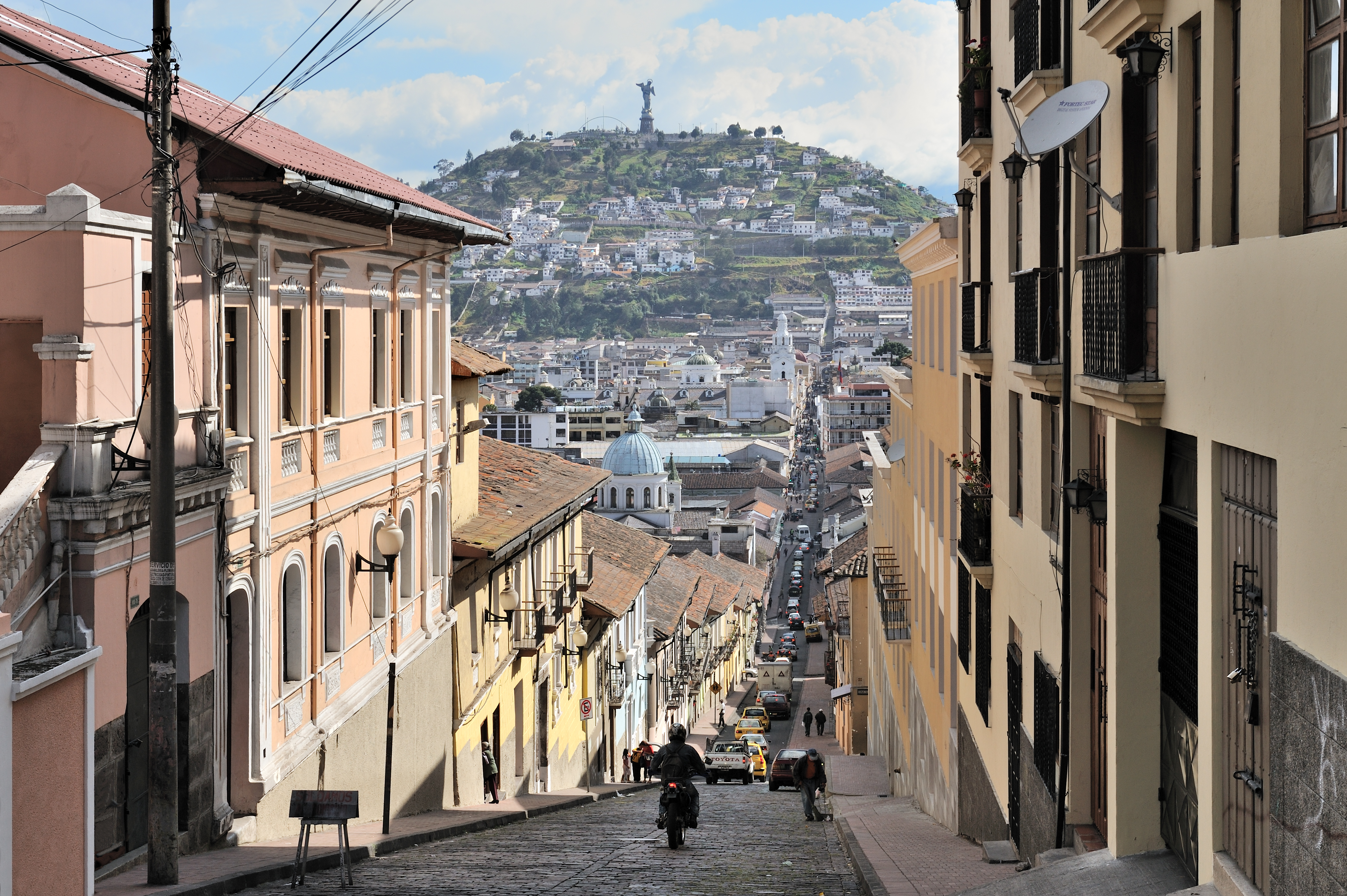 Quito, capital of Ecuador, García Moreno street in the historic centre of the city. The Virgin of Quito is seen in the background.